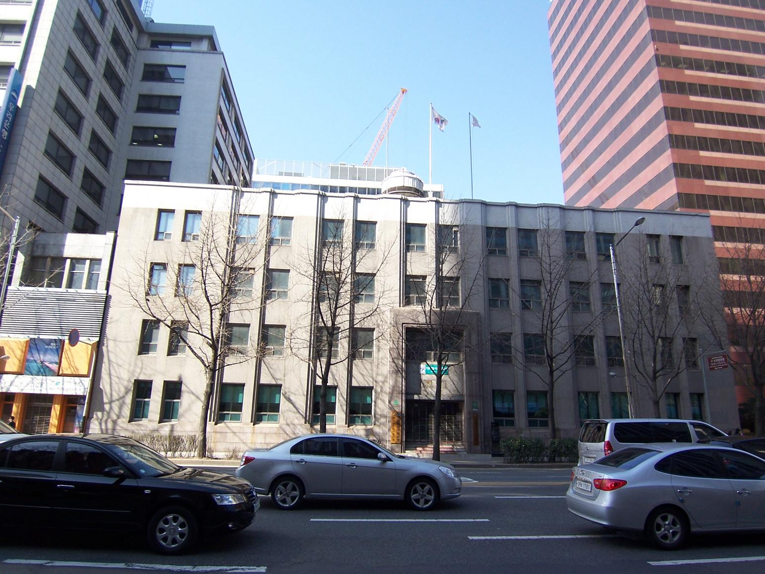 Old U.S. cultural center building in Seoul.